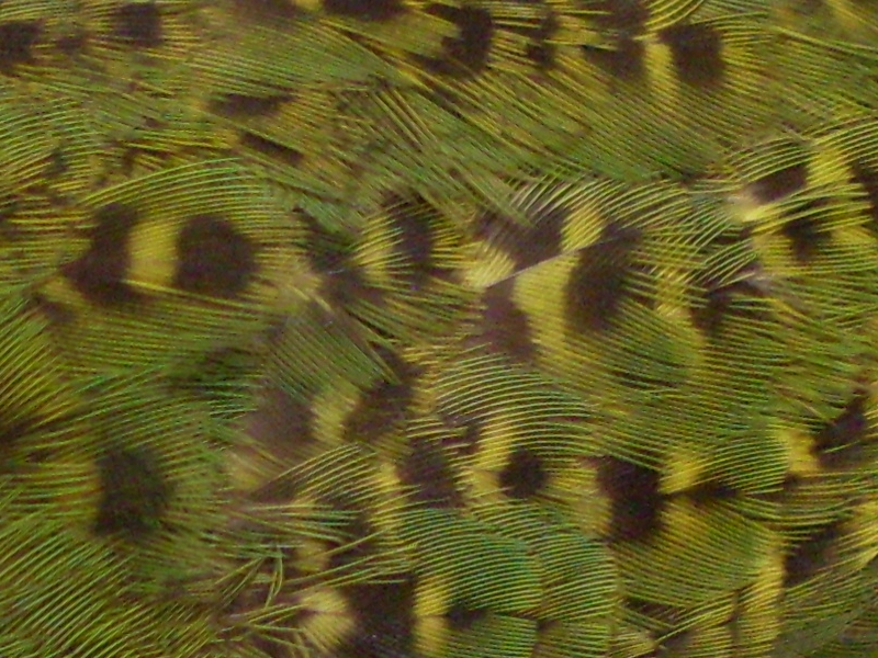 Detail of a Ground Parrot (Pezoporus wallicus). Sydney NSW Australia, June 2009.